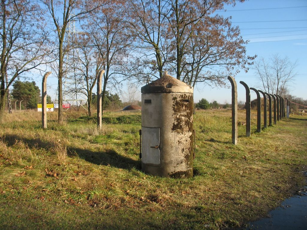 Schron wartowniczy BWS Dywidag - II w.ś.